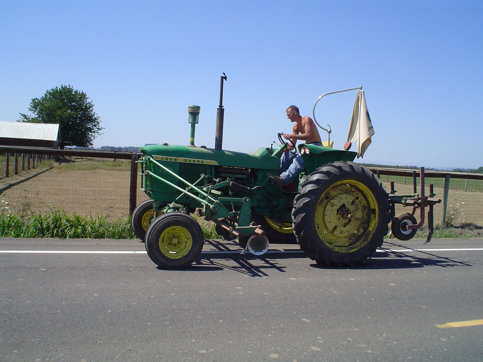 Farmer near Gervais, Oregon, United States.